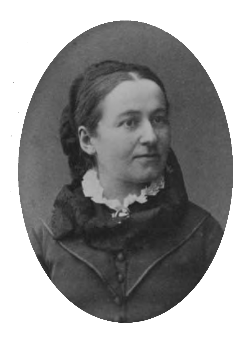 Photo by Daniel Nyblin